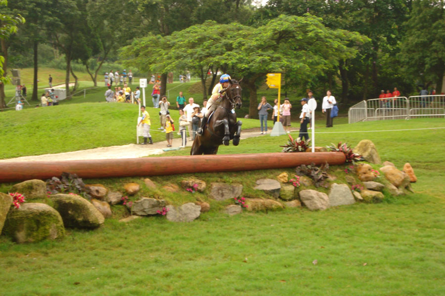 Beijing 2008 Olympic Game - Equestrian Event - Cross-Country Test of the Eventing Competition, held on The Olympic Equestrian Venue (Beas River) on 2008.8.13. Jump Number 8 - Yu Hua Tai Rockery (雨花台)